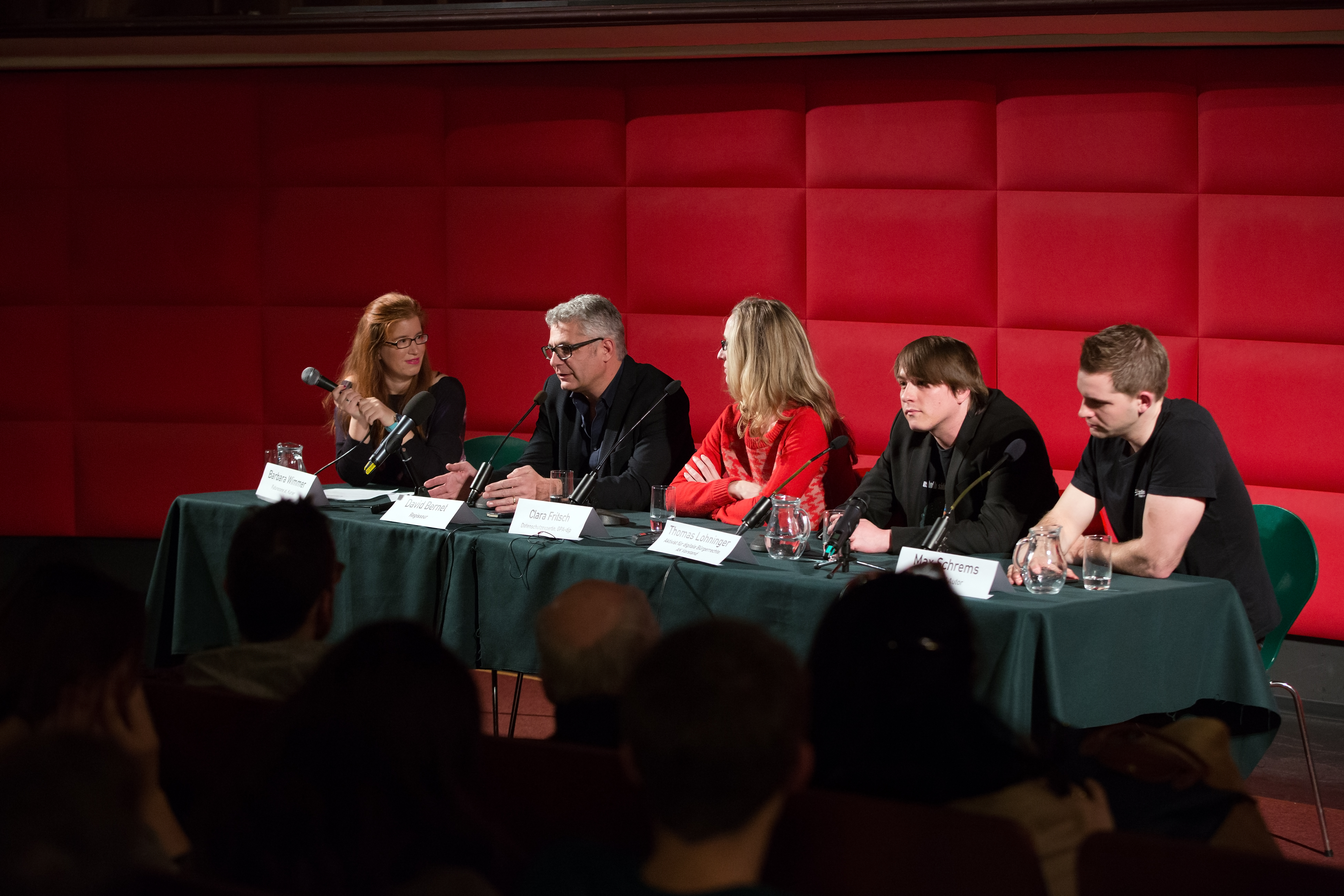 l.t.r.: Barbara Wimmer (presenter), David Bernet (director), Clara Fritsch (GPA-DJP), Thomas Lohninger (AKVorrat.at) and Max Schrems - panel discussion at the Austrian premiere of the documentary film Democracy at Filmcasino in Vienna, Austria).